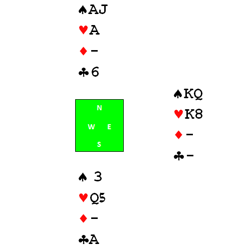 Vienna Coup bridge squeeze